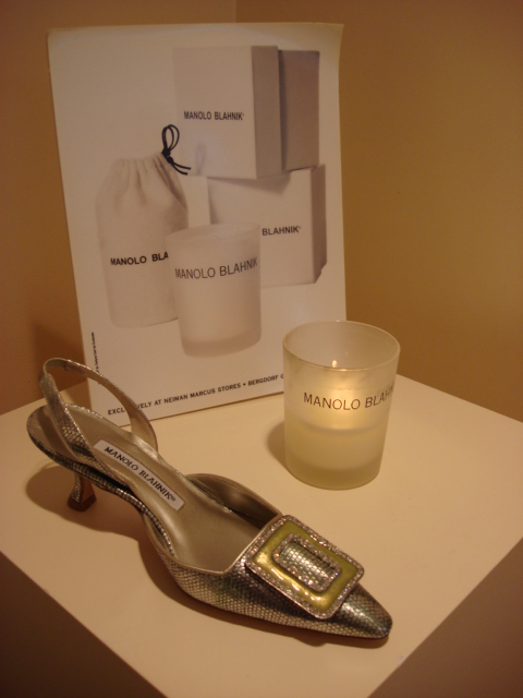 Manolo Blahnik shoe (31 W 54th St - New York)